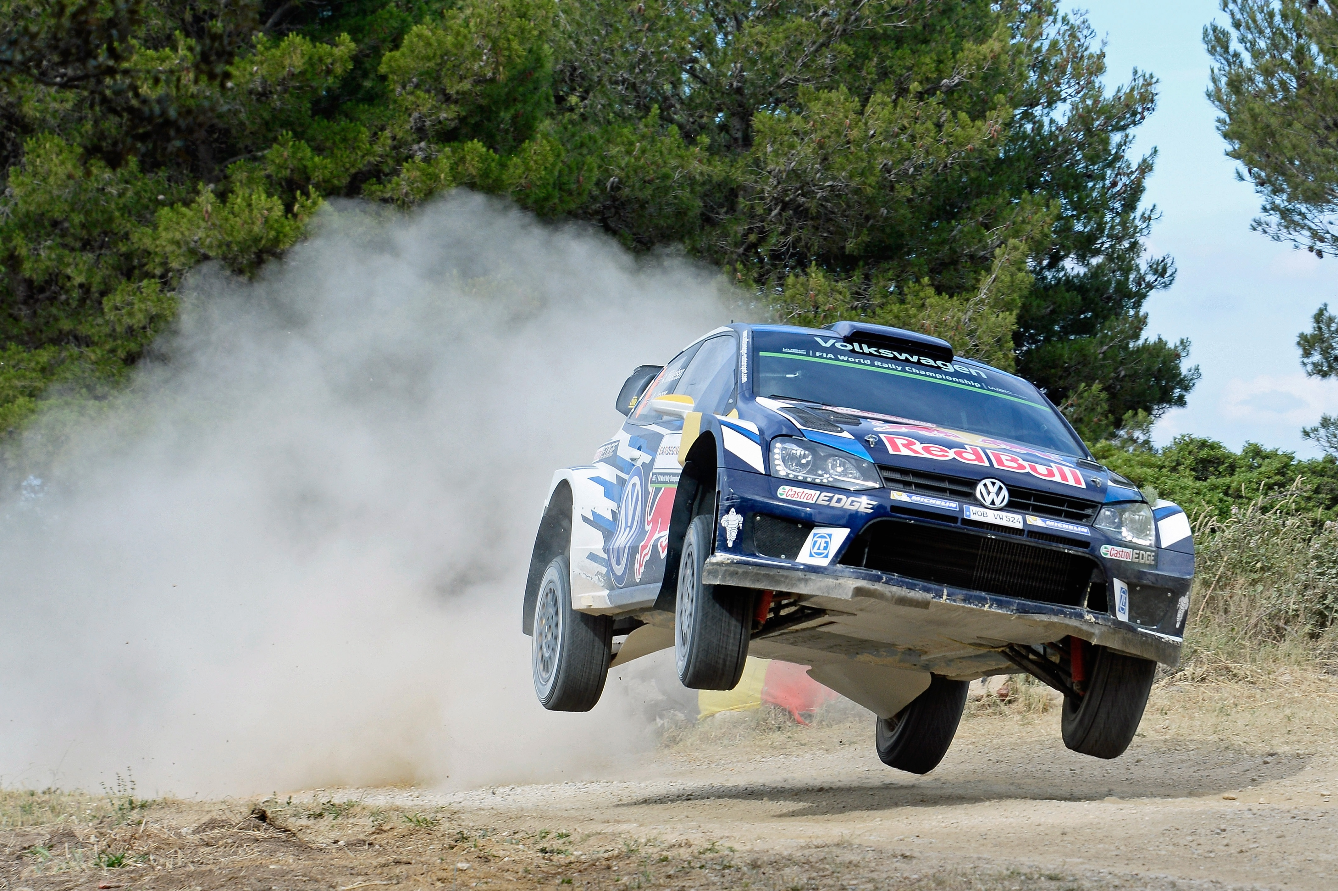 Andreas Mikkelsen and co-driver Anders Jæger in their Volkswagen Polo R WRC at the 2016 Rally d'Italia Sardegna.